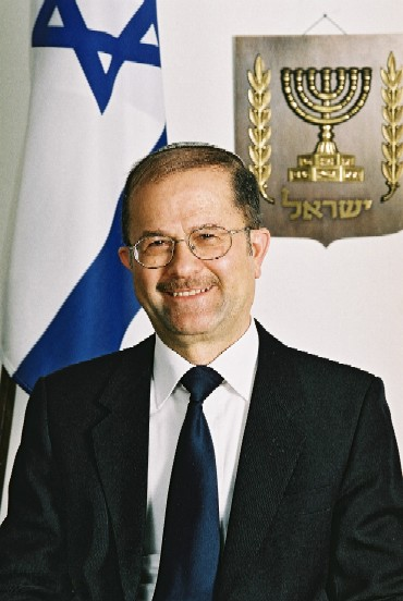 YAACOV ZEMACH